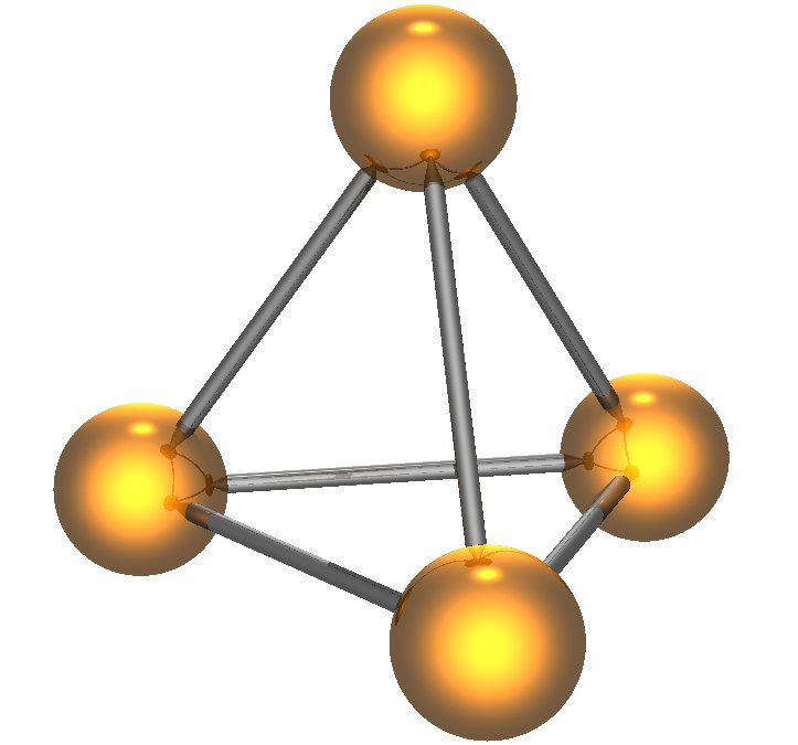 I drew it using the literature to guide me as to where to place the atoms Ð¡Ð»Ð¸ÐºÐ°:White phosphrous molecule.jpg